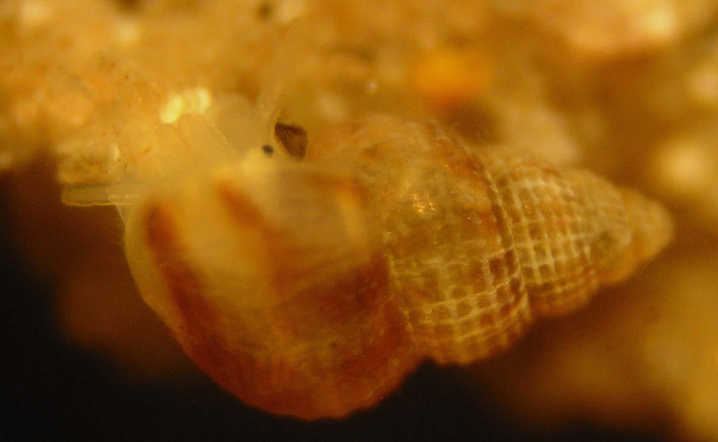 Alvcania punctura. Dorsal view.